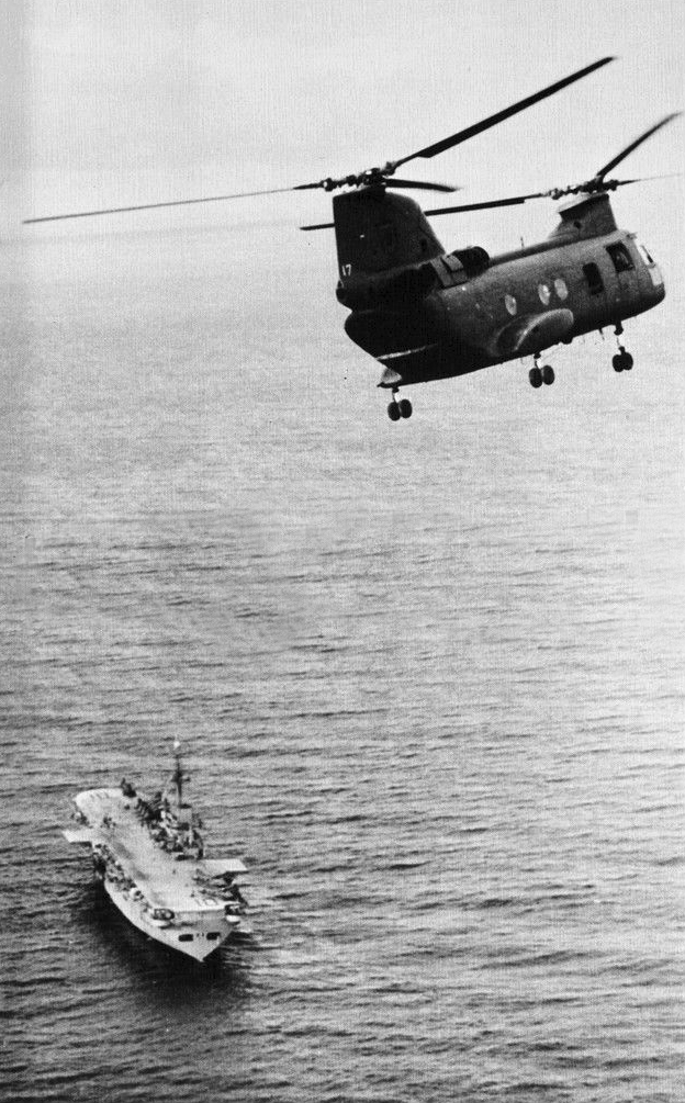 A U.S. Marine Corps Boeing Vertol CH-46A Sea Knight approaches the amphibious assault ship USS Tripoli (LPH-10), circa in 1968.